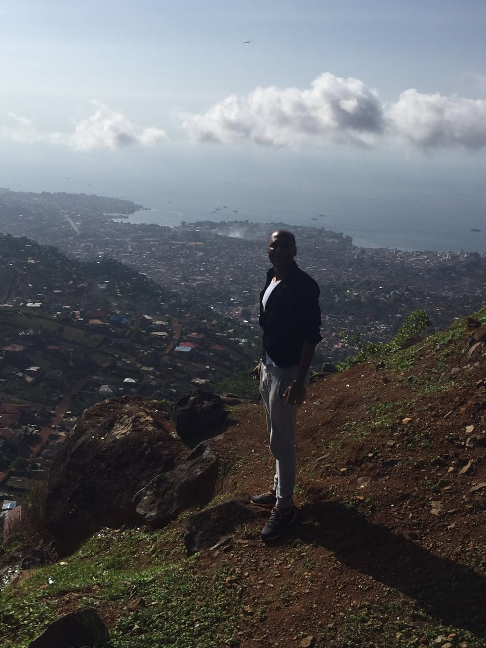 Atop one of the highest points in Freetown This is an image of "African people at work" from Sierra Leone